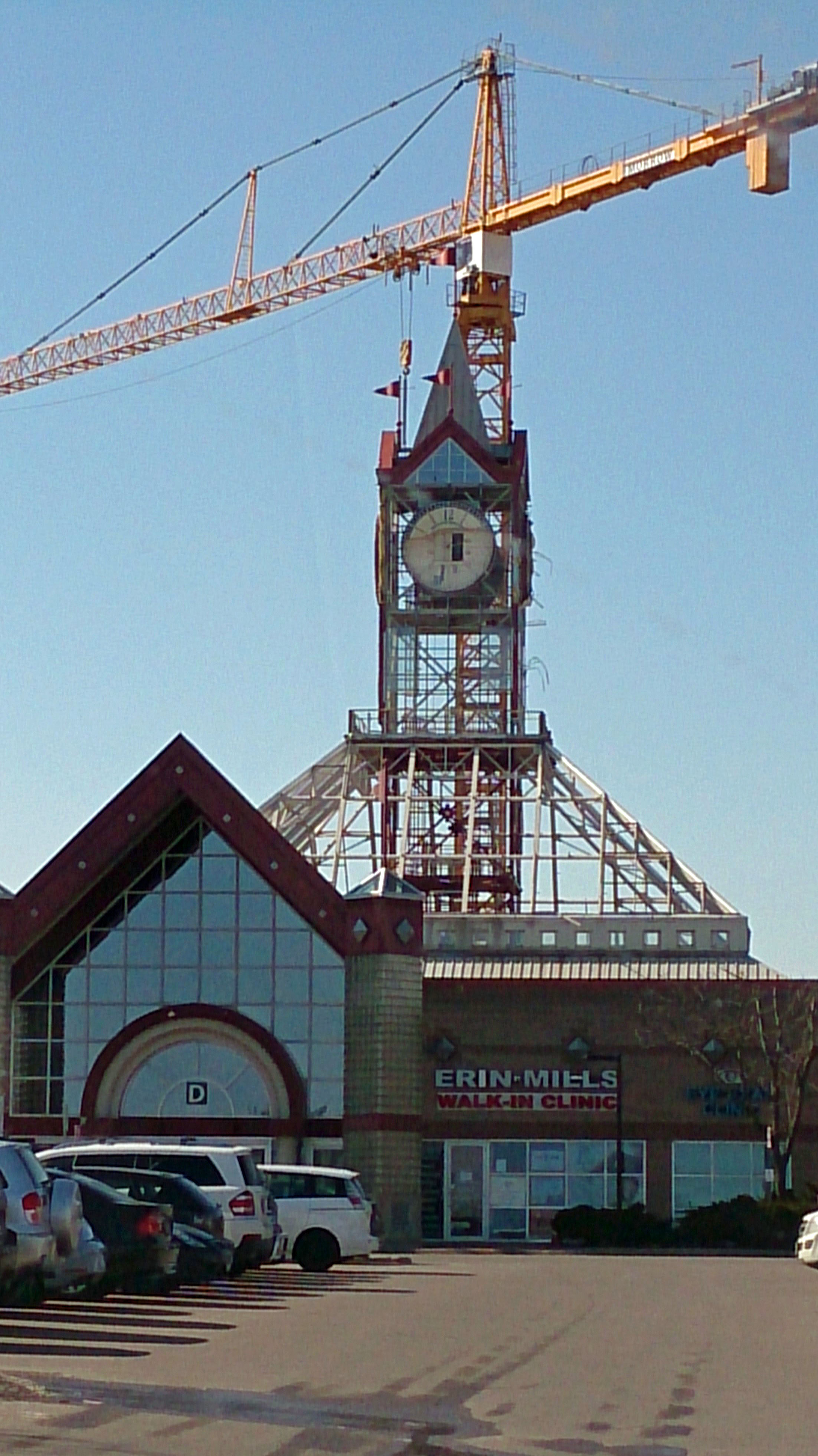 Erin Mills Town Center's Legendary Clock Tower being dismantled as part of the redevelopment project. It will be replaced with an iconic glass sphere as its successor.